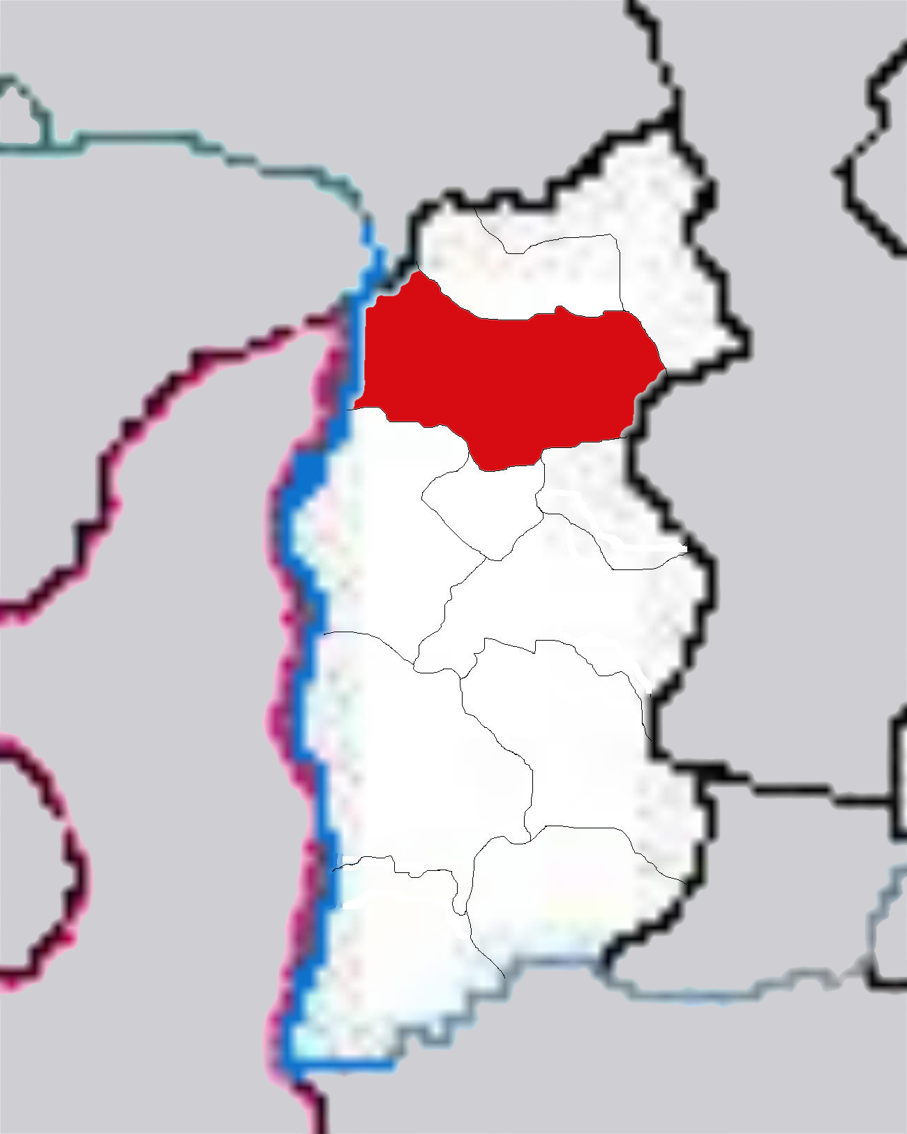 Maps of Shanxi Province of China